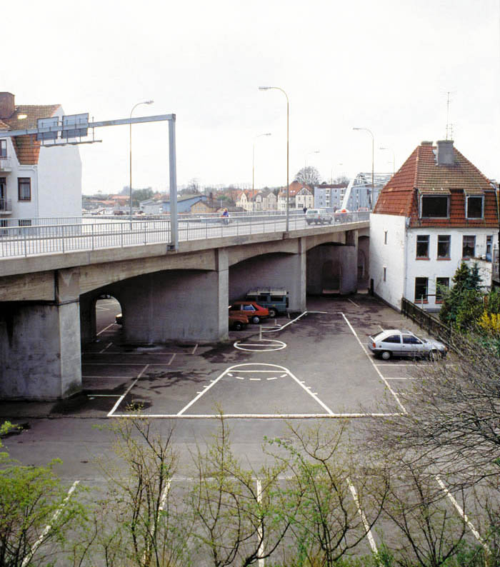 Harmen de Hoop - Basketball court #7 – Sønderborg – 1992